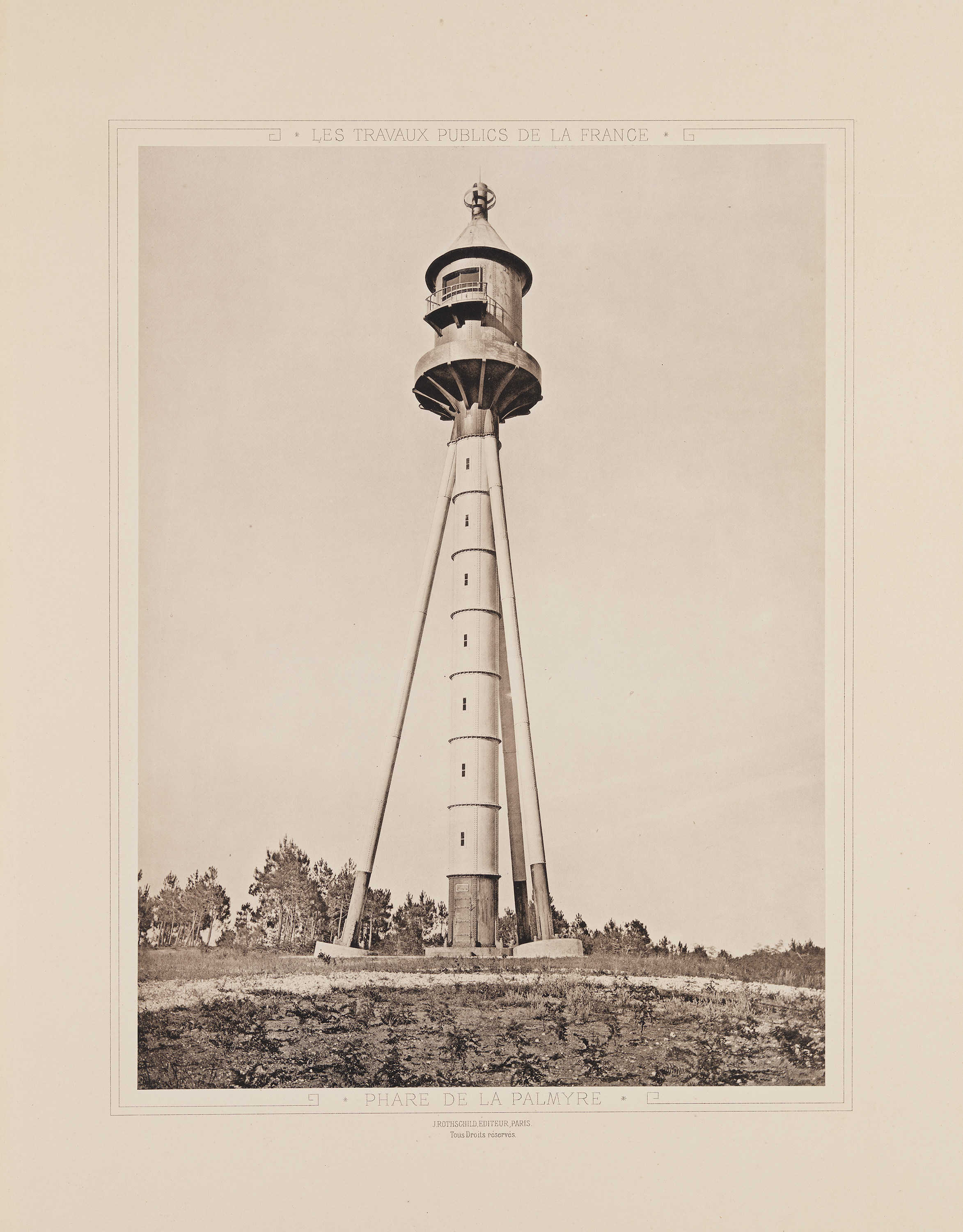 Title: Phare de la Palmyre Alternative Title: Palmyre Lighthouse Creator: Duclos, Jules Date: 1883 Series: Tome Cinquieme: Phares et Balises Place: Royan, Charente-Maritime, France Description: The full title of the five-volume set is, Les travaux publics de la France par MM. F. Lucas et V. Fournie - Ed. Collignon - H. de Lagrene - Voisin Bey - E. Allard. Ouvrage publie sous les auspices de Ministere des travaux publics et sous la direction de M. Leonce Reynaud. This photograph is one of 50 plates in Public Works of France, Volume Five: Lighthouses and Beacons. Physical Description: 1 photographic print: collotype; 35 x 26 cm on 56 x 40 cm mount File: vault_folio_2_ta71_a4_1883_5_36_opt.jpg Rights: Please cite Southern Methodist University, Central University Libraries, DeGolyer Library when using this image file. A high-quality version of this file may be obtained for a fee by contacting . For more information, see